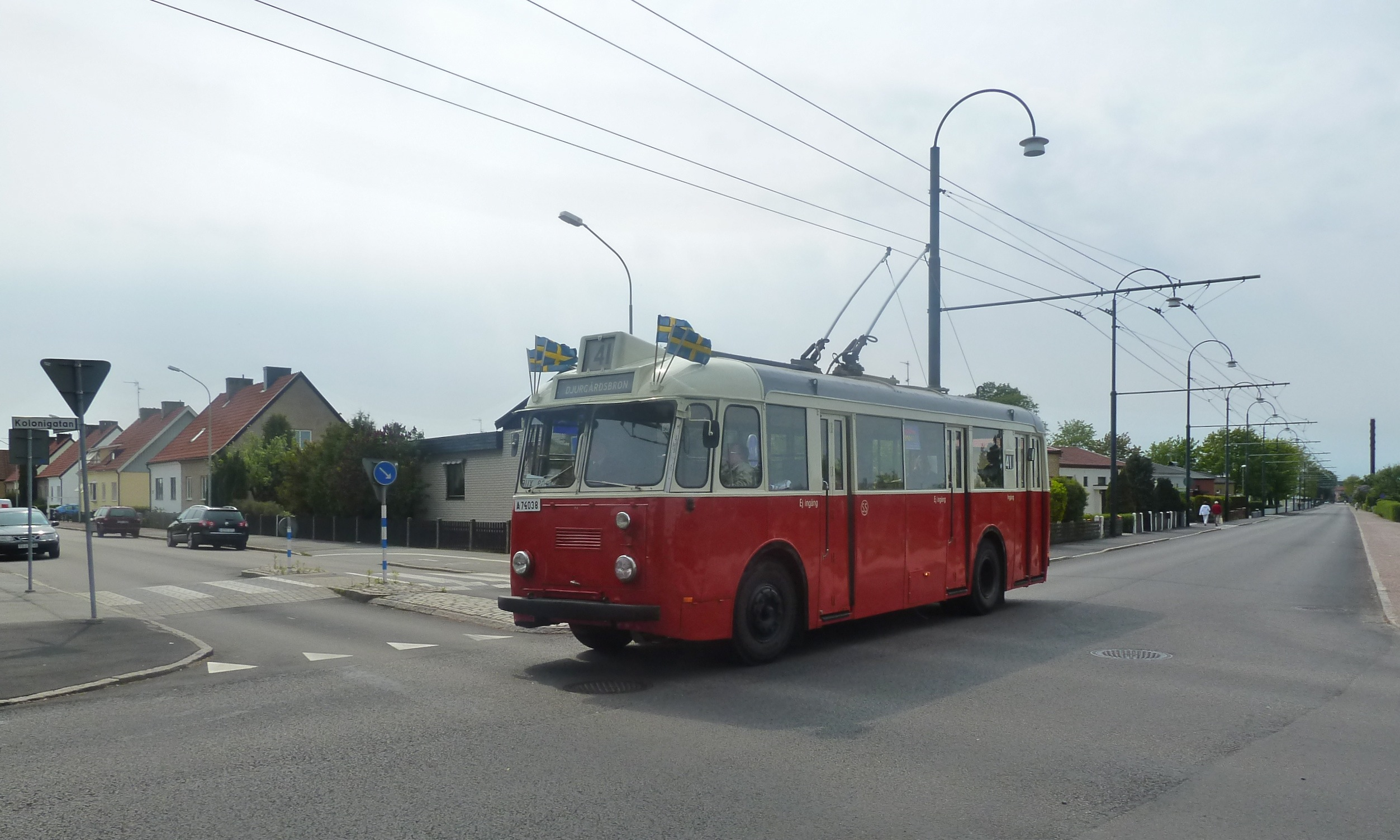 Old trolleybus SS F3 4038 from Stockholm on Kolonigatan in Landskrona, during a trolleybus festival in May 2011. It was built in 1949 by Scania-Vabis, with a body by Hägglunds. It is owned by the Stockholm Tramway Museum, but it visited the Landskrona trolleybus system in May 2011 for this special event.